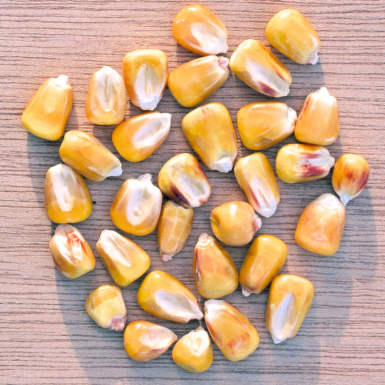 Maize/corn kernels